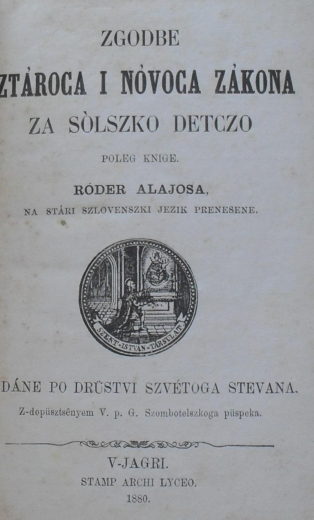 Zgodbe Sztároga i Nóvoga Zákona (Historys of the Old and New Testaments), the work of István Szelmár from 1880 in prekmurian language (prekmurščina)